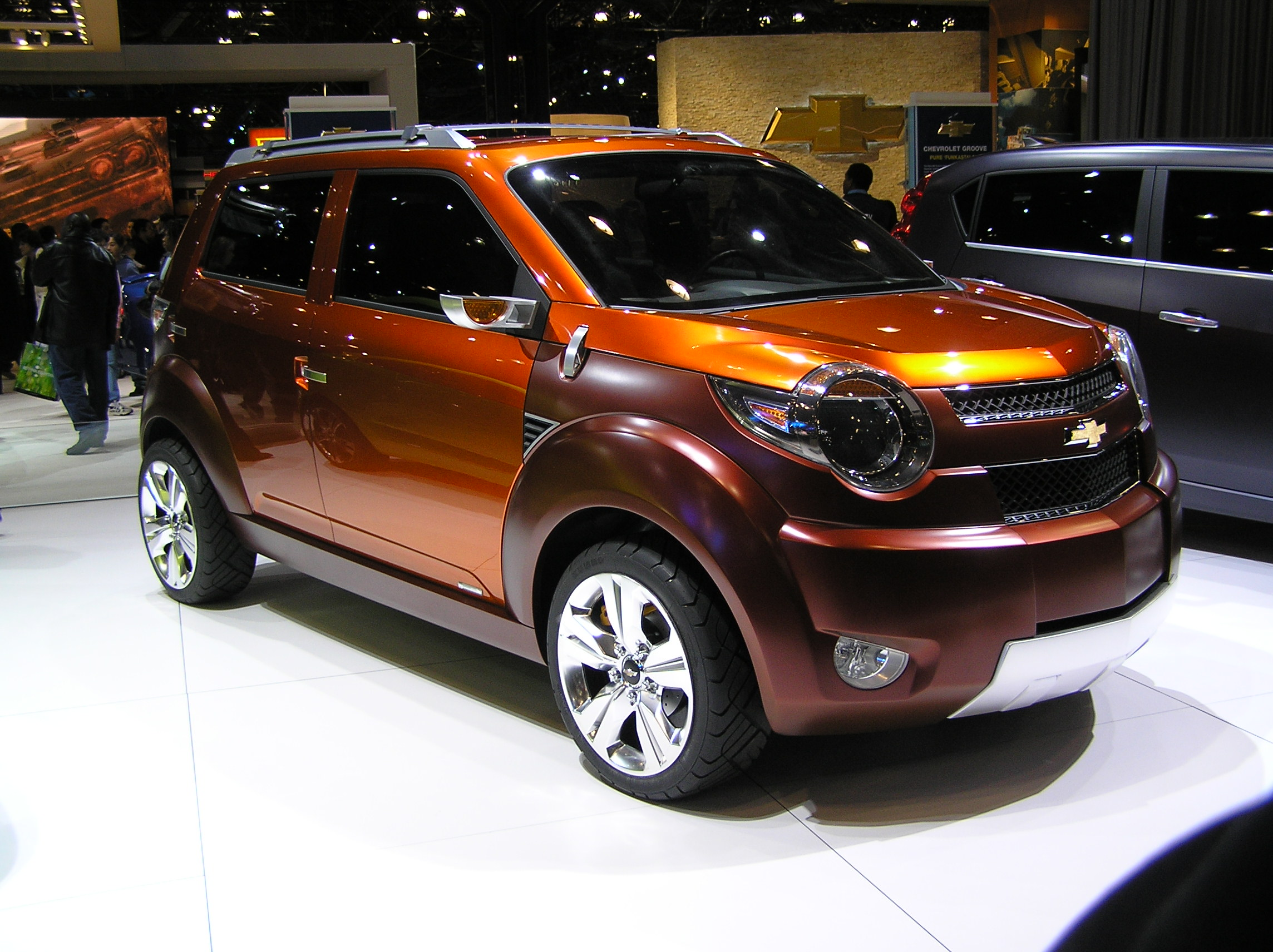 A Chevrolet Trax concept car on display at the New York International Auto Show